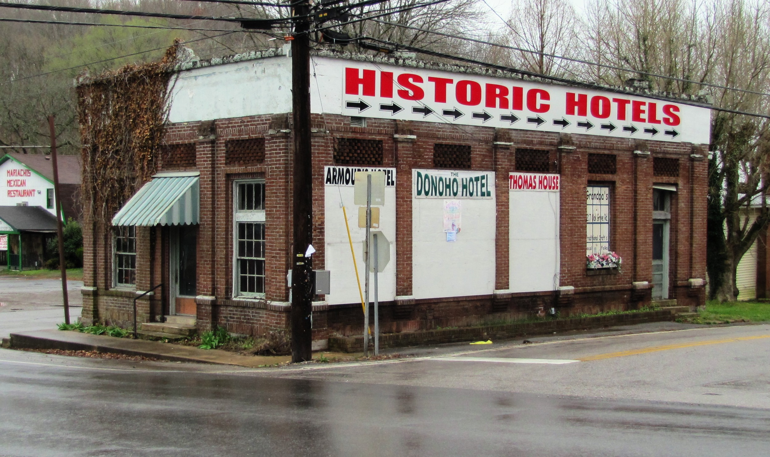 The Red Boiling Springs Bank building in Red Boiling Springs, Tennessee, United States, built in 1928, and listed on the National Register of Historic Places.